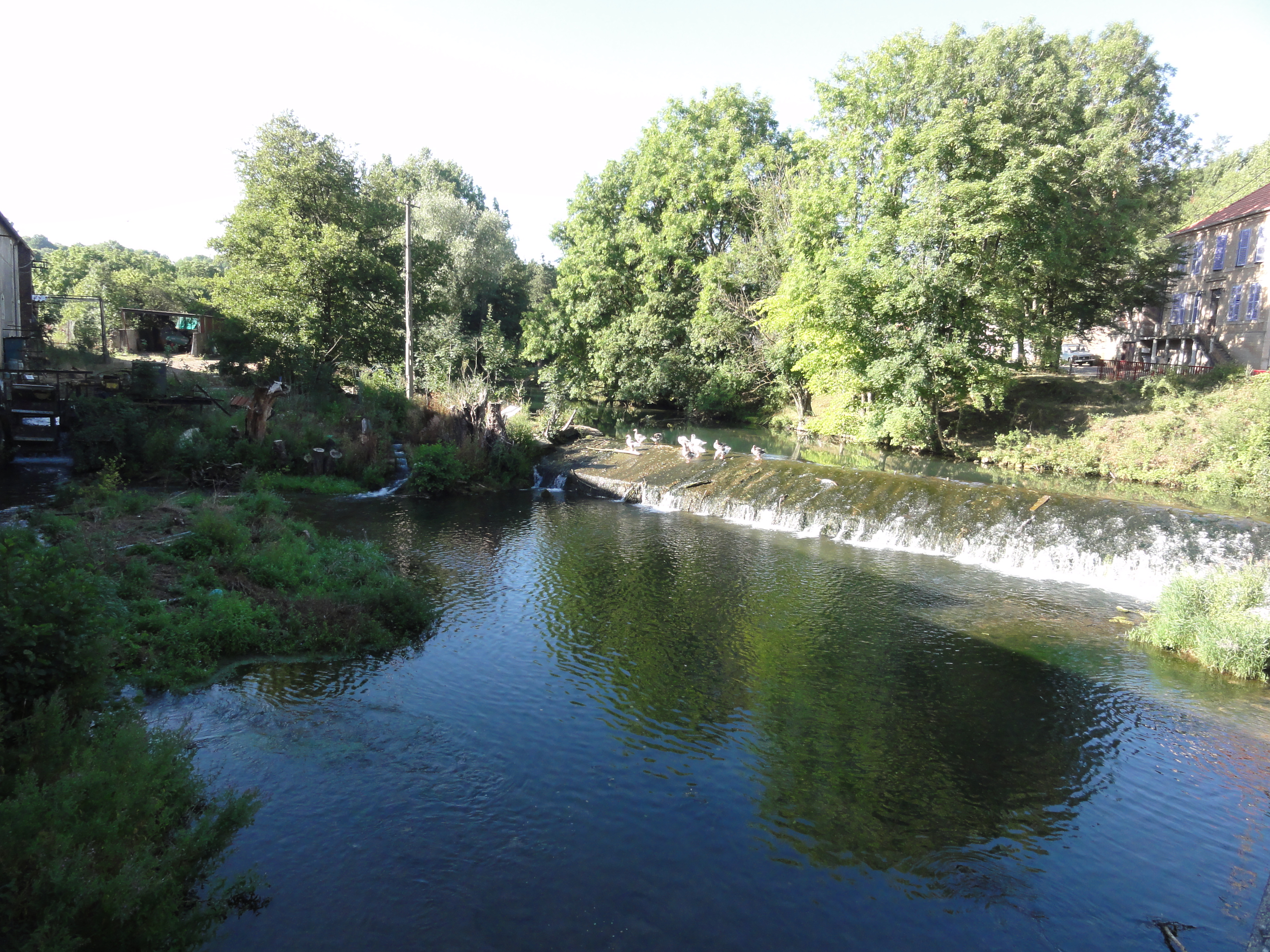 Pierrepont (Meurthe-et-M.) la Crusnes